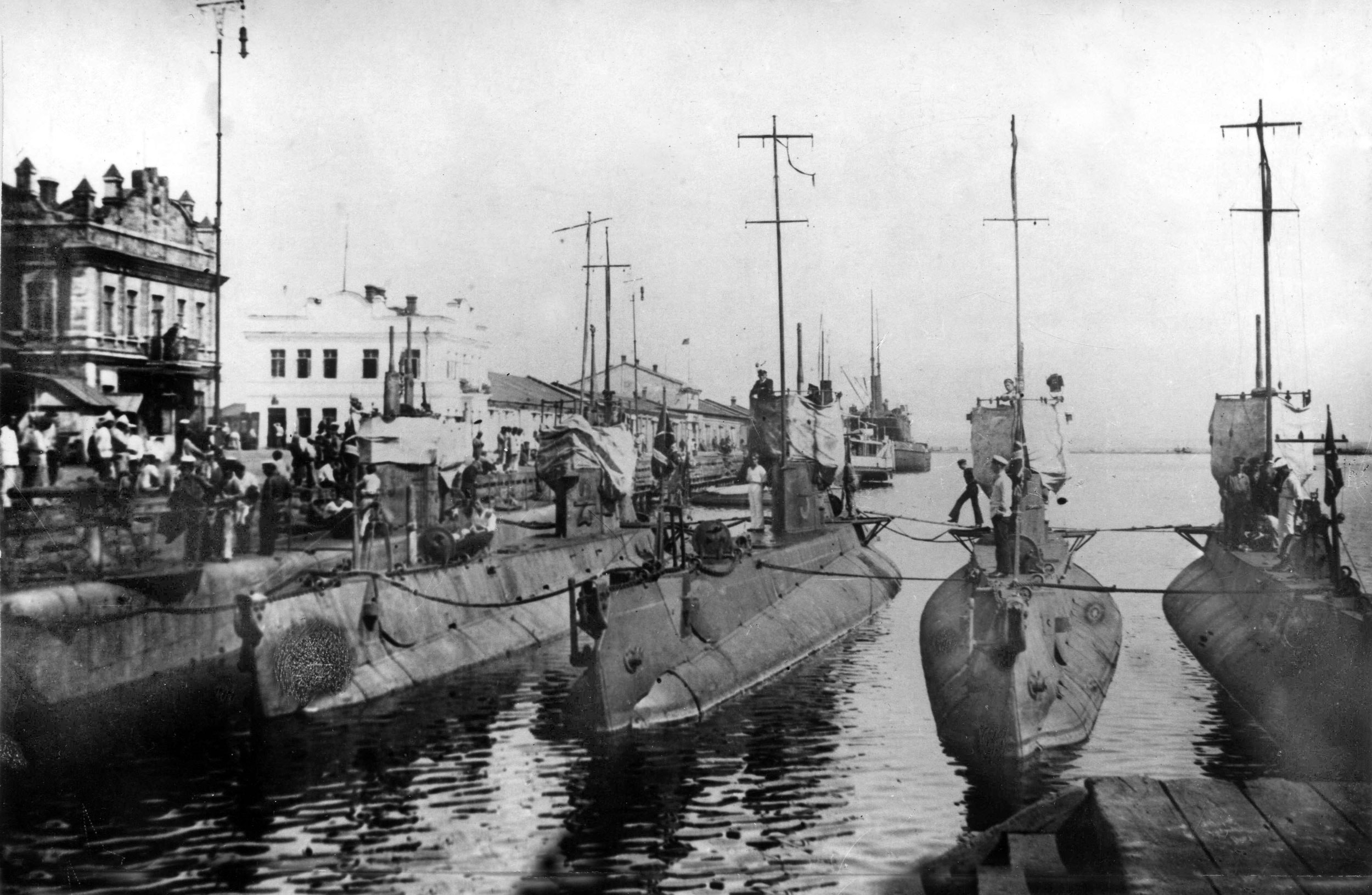 The Soviet «Morzh» class submarine «Politruk» and the «AG» class submarines «Shakhtyor», «Kommunist», «Marksist» and «Politrabotnik» (from left) of Black Sea Fleet in Odessa, 1930-32.